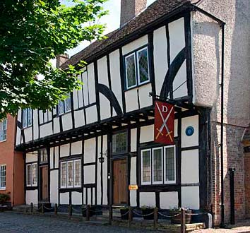 Dean Incent's House Author Robert Stainforth